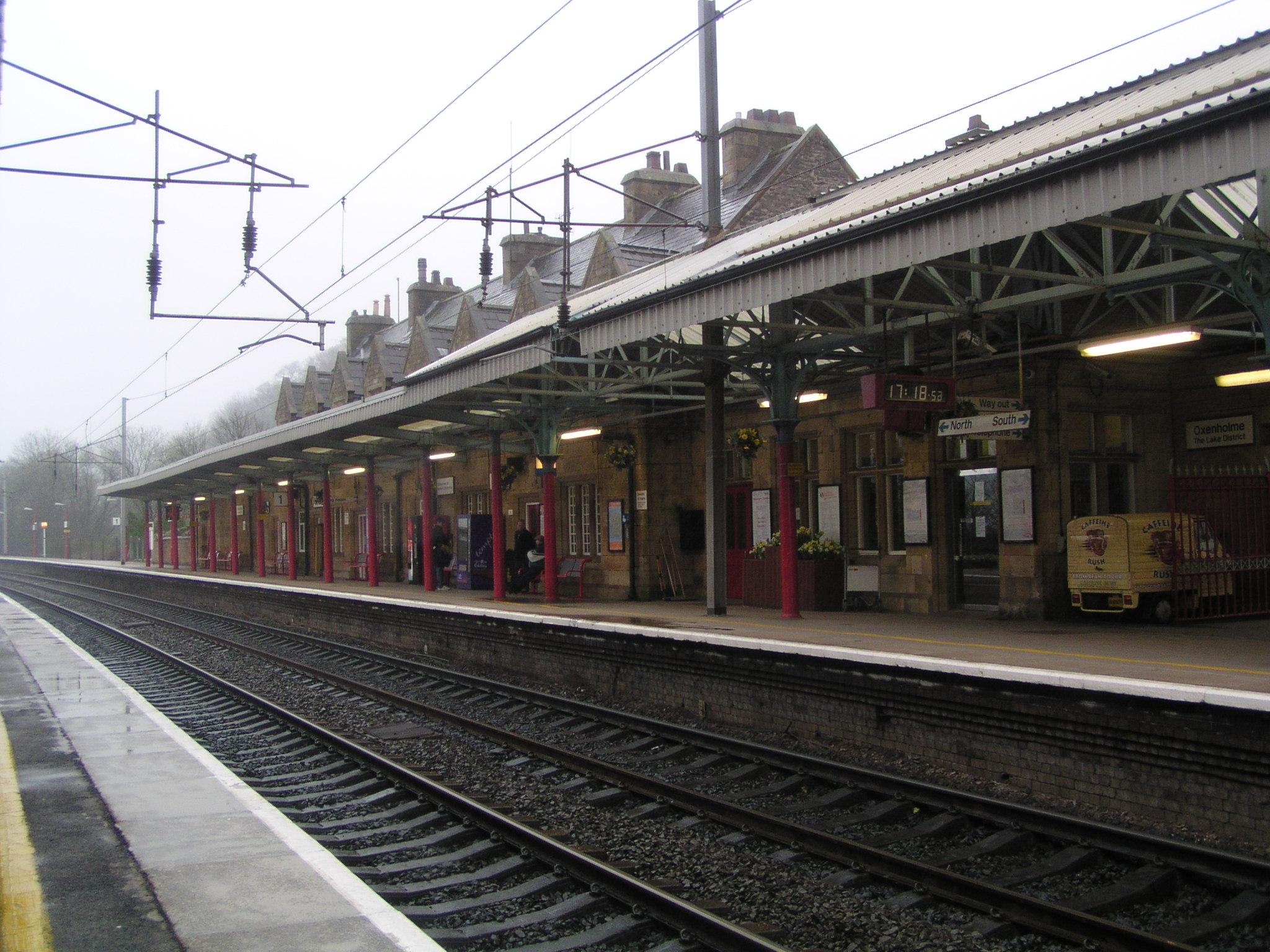 Oxenholme Lake District railway station.